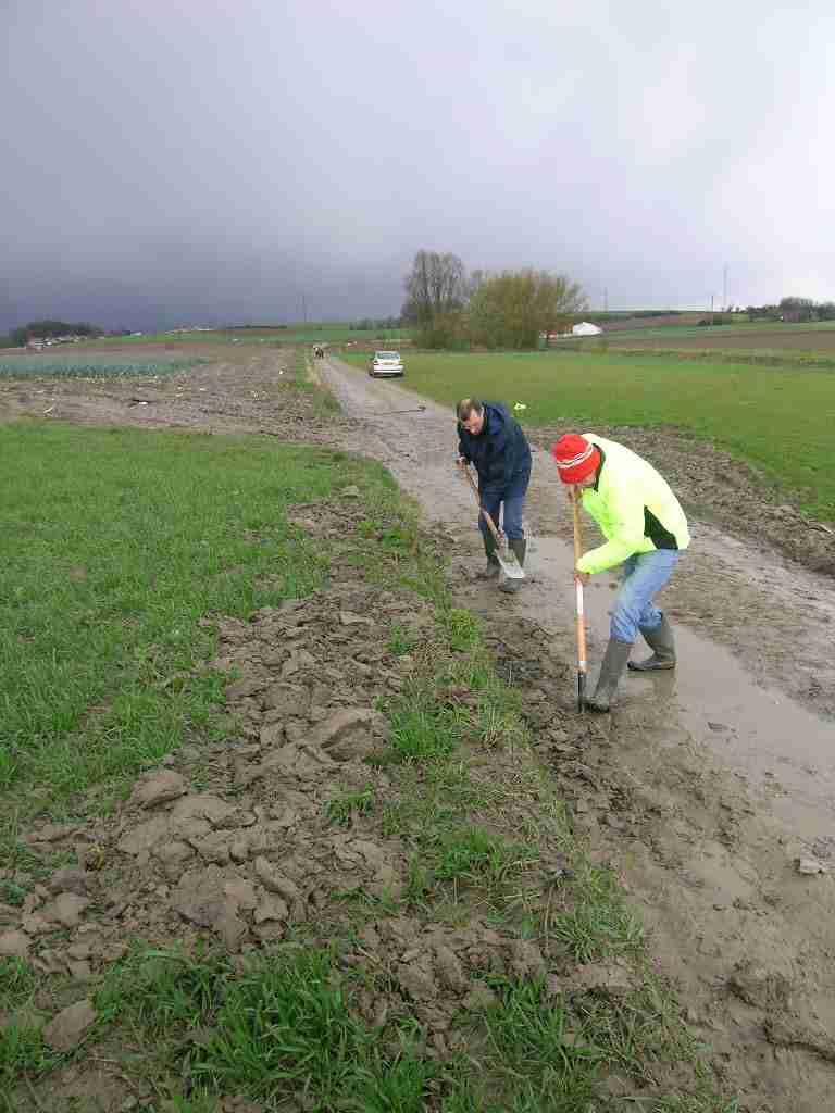 Paris_Roubaix_-_Les_forçats_du_pavé_at_Mons_en_Pévèle_-_02